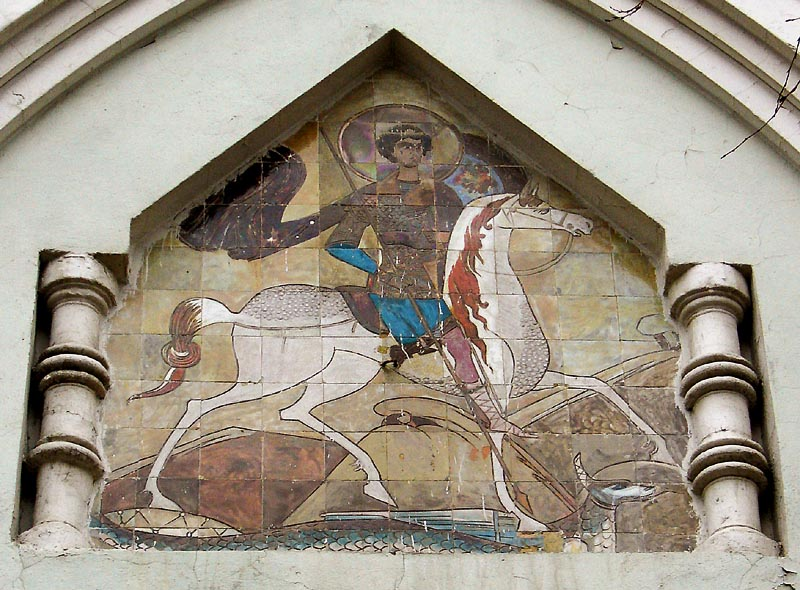 Devichye Pole, Moscow, City School - Tile Murals